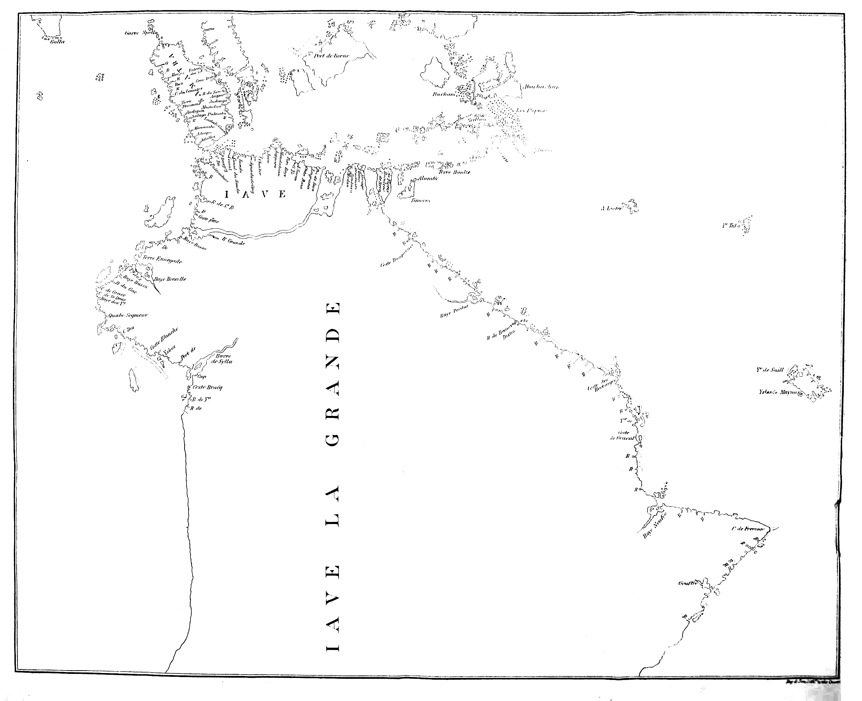 A map facing page 37 of Early voyages to Terra Australis